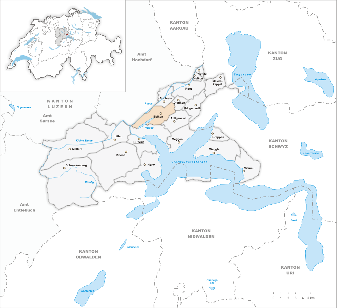 Municipality Ebikon